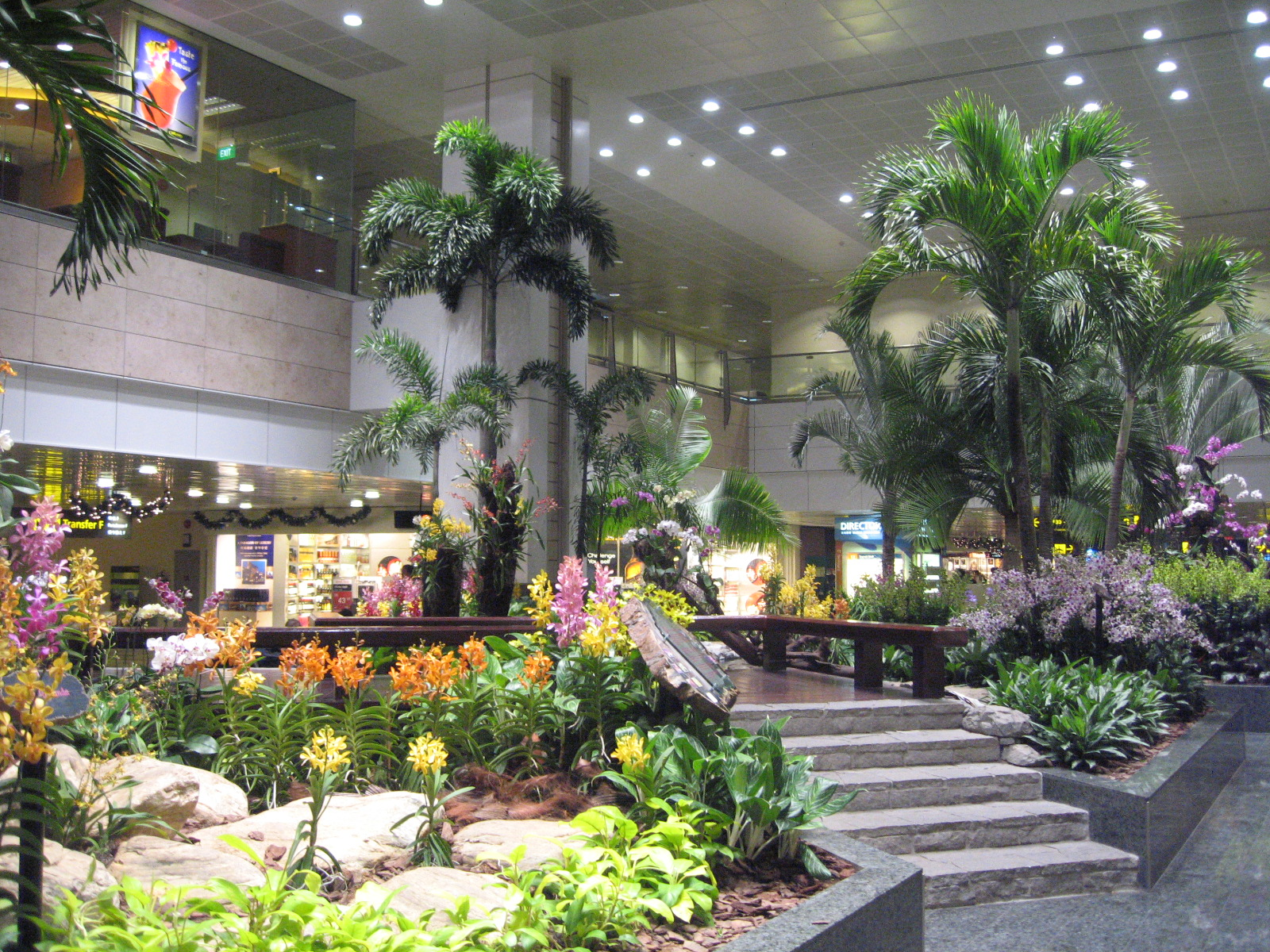 Singapore Changi Airport, Terminal 2, Restricted Area.